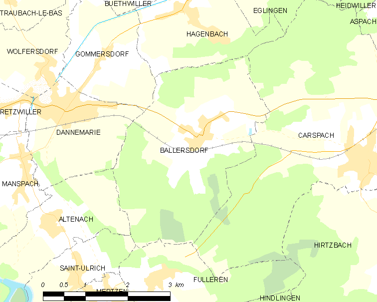 Map of French municipality